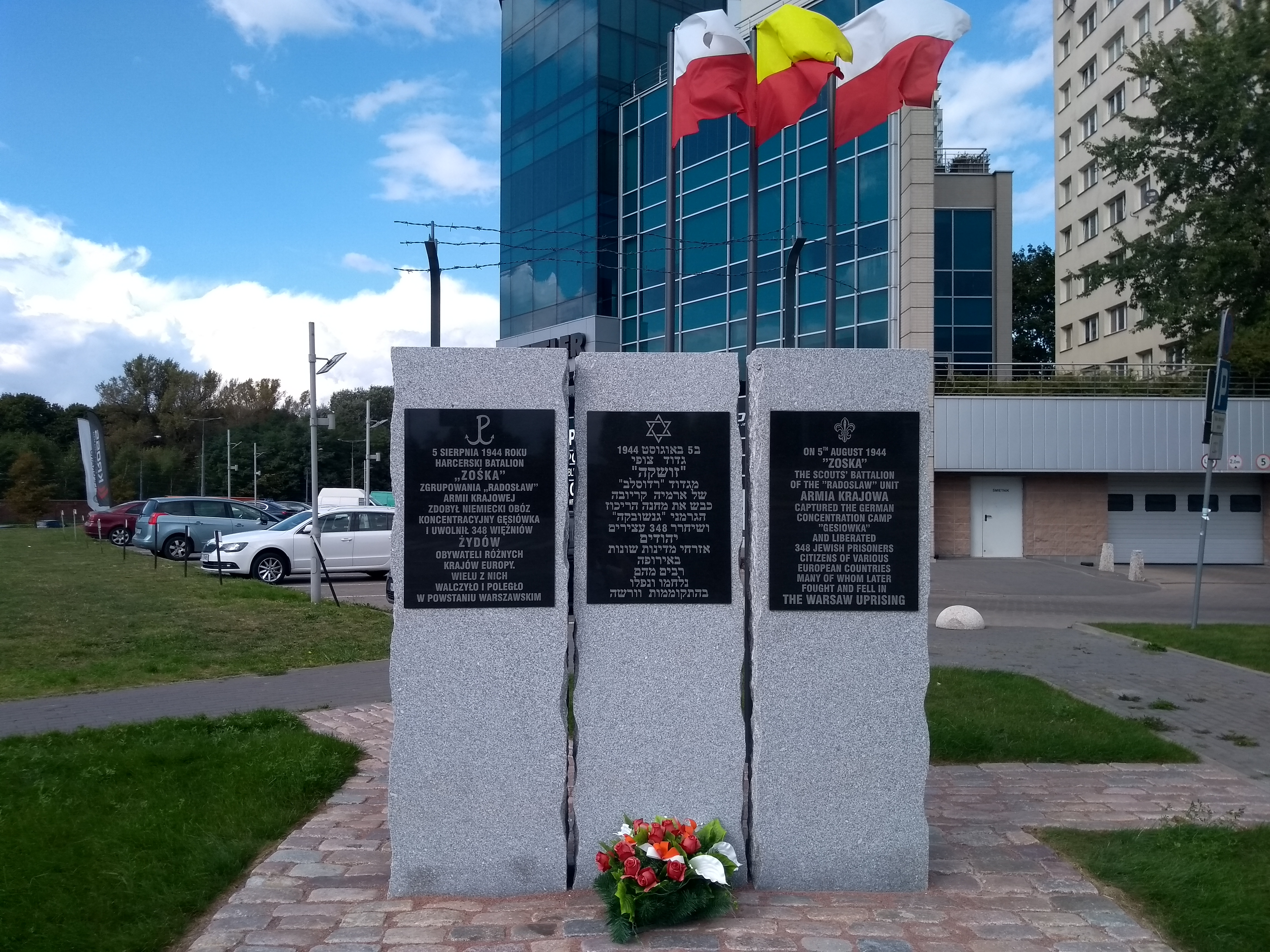 Memorial at Mordechaja Anielewicza Street in Warsaw commemorating liberation of 348 Jewish prisoners of Warsaw concentration camp ("Gęsiówka") by soldiers of Polish Home Army battalion "Zośka" on 5th August 1944.